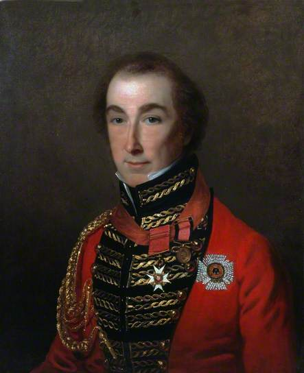 Portrait of Sir Jasper Nicolls